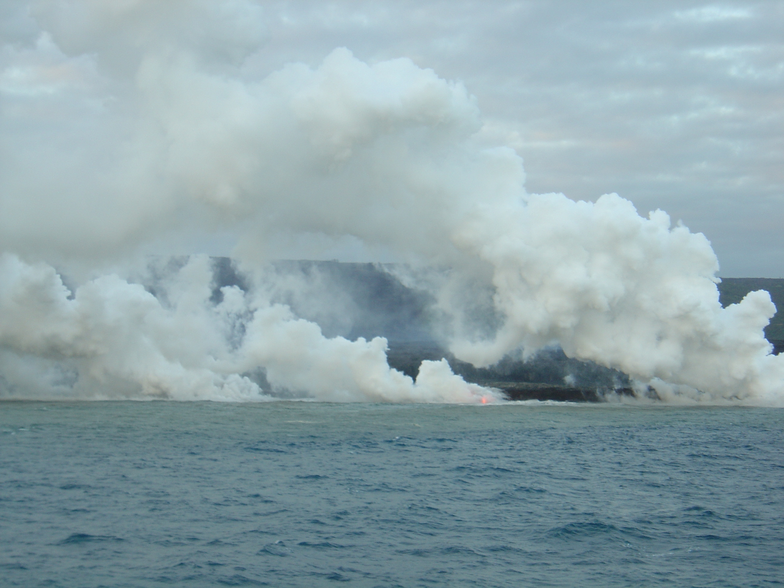 Lava flow entering the sea on SE coast of Hawaii. Hawaii, Hawaii.